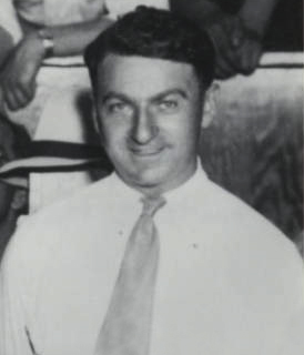 Businessman and former Minneapolis Lakers and Minnesota Vikings sport executive Max Winter, in a 30ies picture.